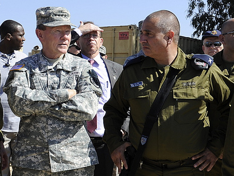 General Martin E. Dempsey and IDF Brigade General Shahar Shohat during AC12 - US-Israel Military Exercise, October 2012